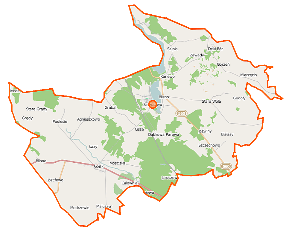 Map of Gmina Szczutowo, Poland This map of Szczutowo (gmina) was created from OpenStreetMap project data, collected by the community. This map may be incomplete, and may contain errors. Don't rely solely on it for navigation. Border coordinates52.993119.4365←↕→19.701952.8631